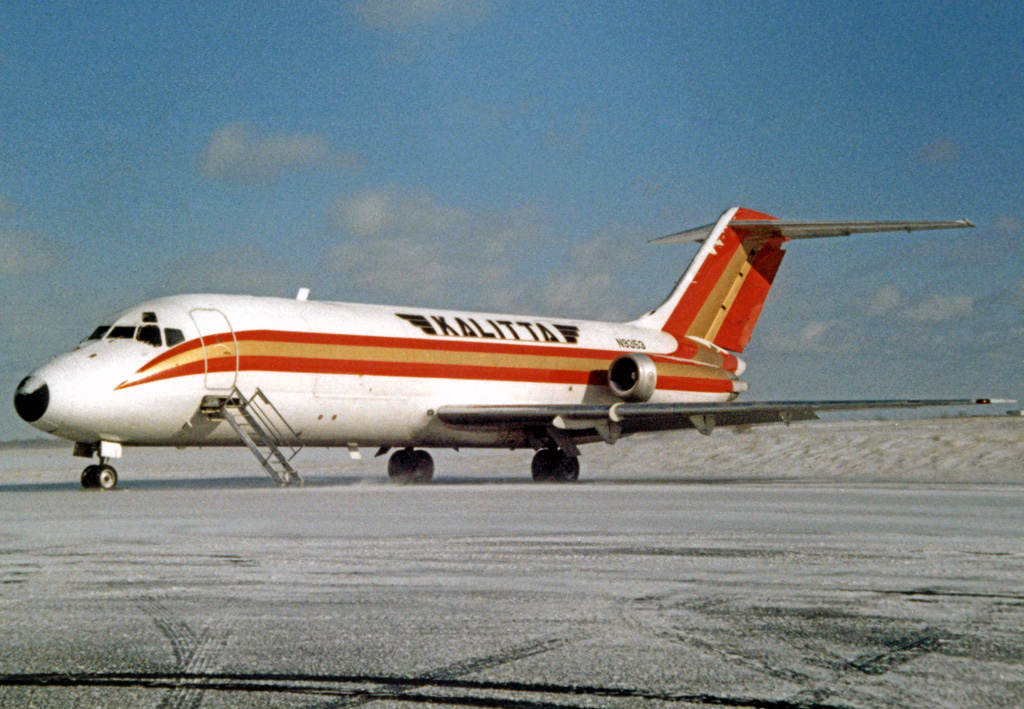 Douglas DC-9-15RC freighter N9353 of Kalitta at Detroit (Willow Run) in 1989